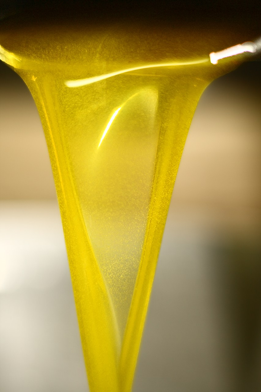 Extra virgin olive oil « Cilento », province of Salerno – Italy.